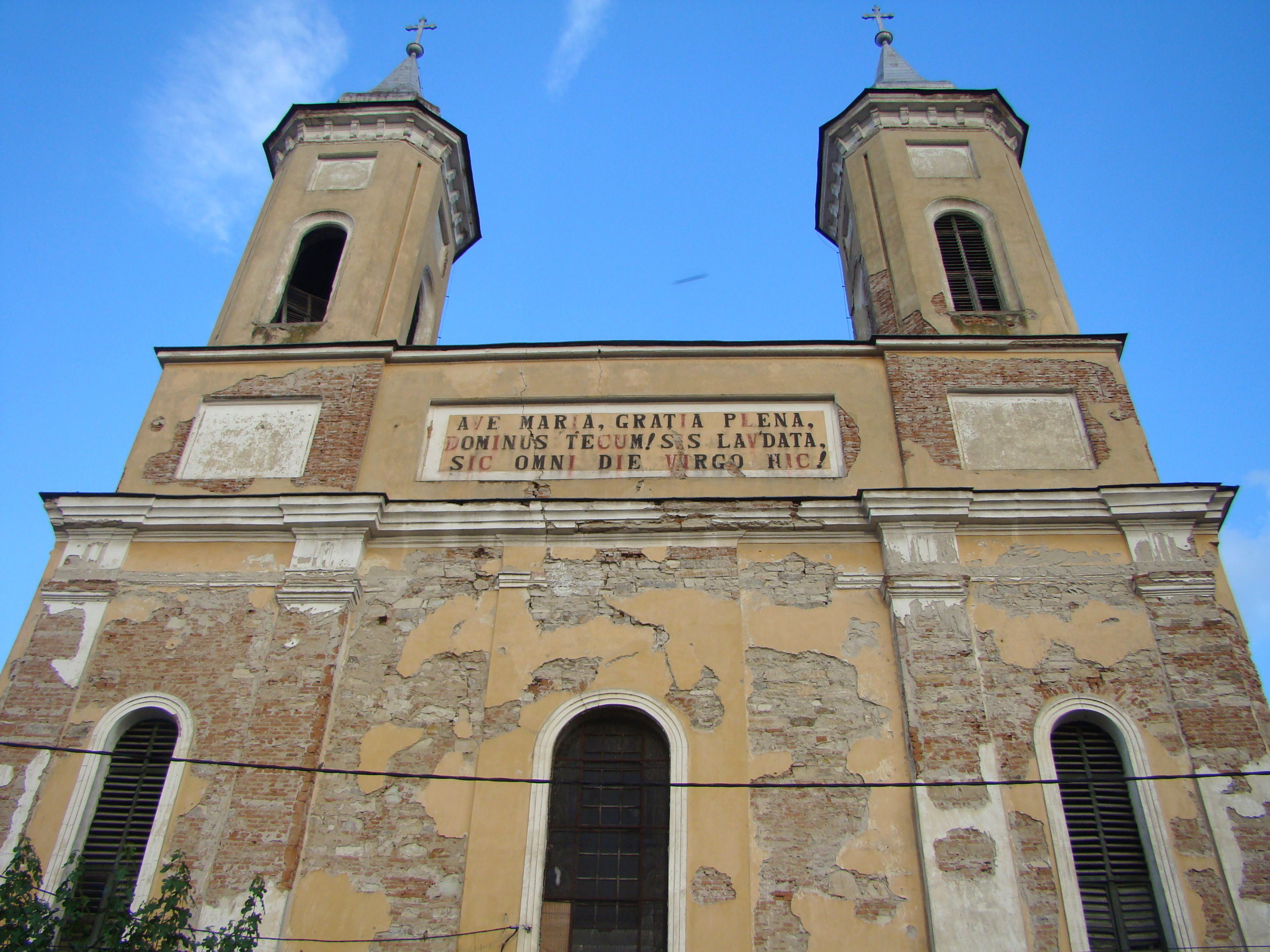 Franciscan monastery in Gherla, Cluj county, Romania